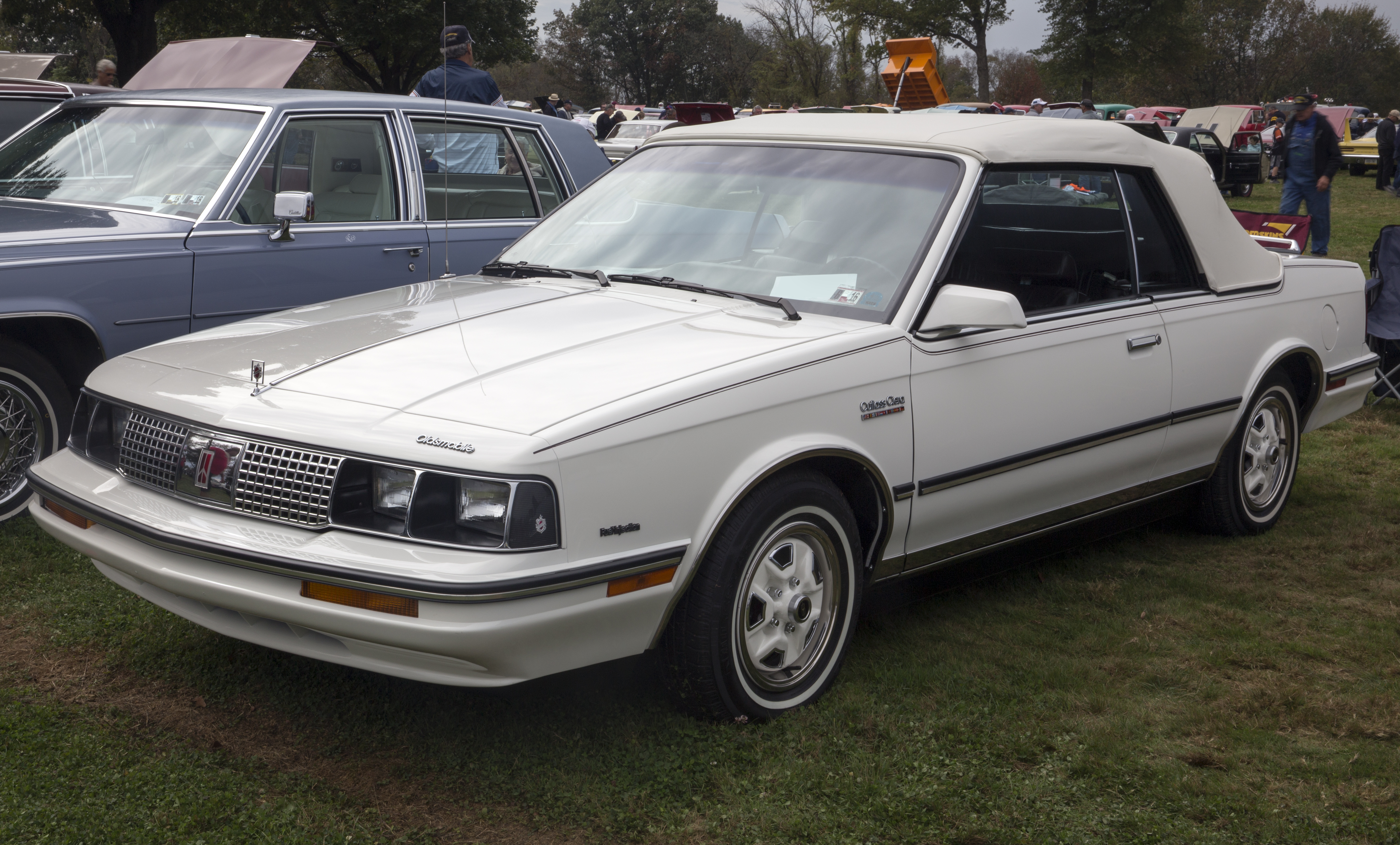 A 1985 Oldsmobile Cutlass Ciera Brougham Convertible in the show area at Hershey 2019. This conversion was carried out by Hess & Eisenhardt; 814 of these were sold directly by Oldsmobile dealers between 1983 and 1986.